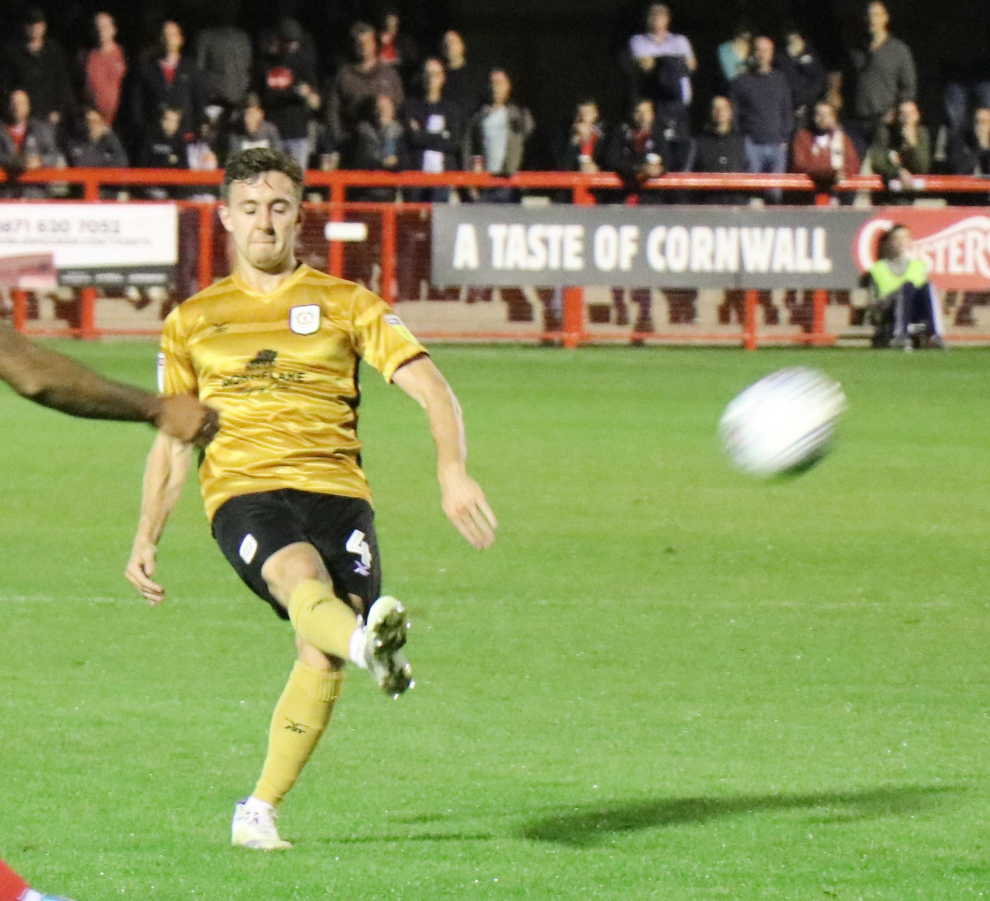 Footballer Ryan Wintle playing for Crewe Alexandra at Crawley Town